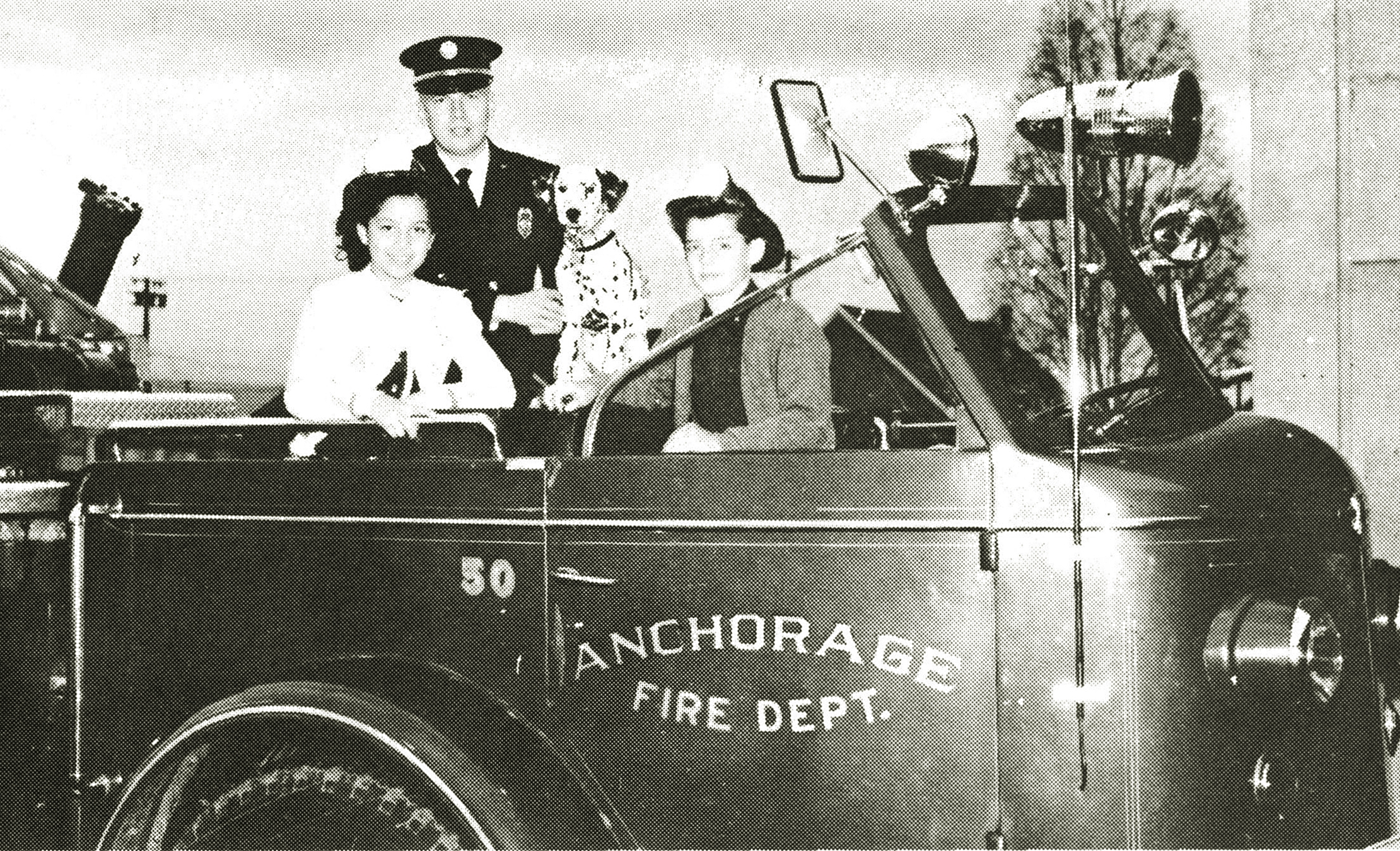 Verso caption: "Lieut. Livingston and Sparky pose with Fire Prevention King and Queen, Georgiana Llaneza and Robert Shepherd". This was used as publicity for the Anchorage FIre Department at the time.